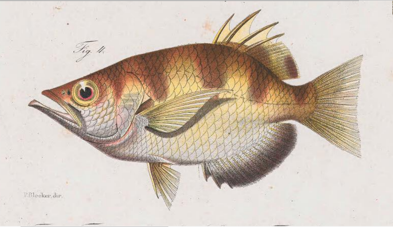 Illustration of T. jaculatrix from Bleeker 1878